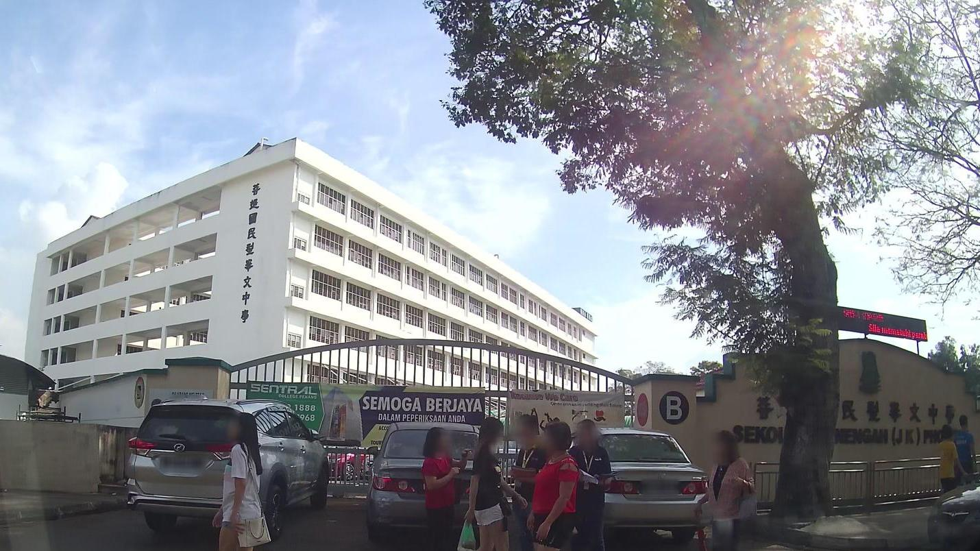 SMJK Phor Tay